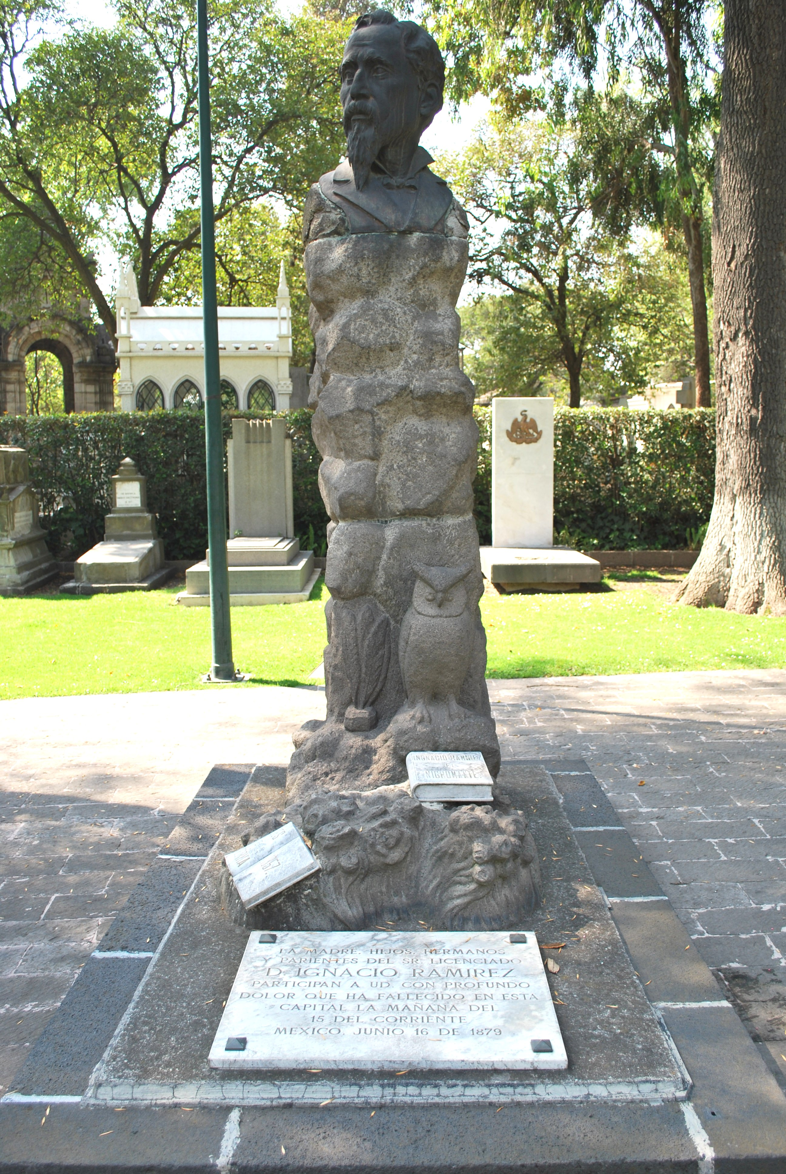 Tomb of D Ignacio Ramerez in the Panteón Civil de Dolores in Mexico City